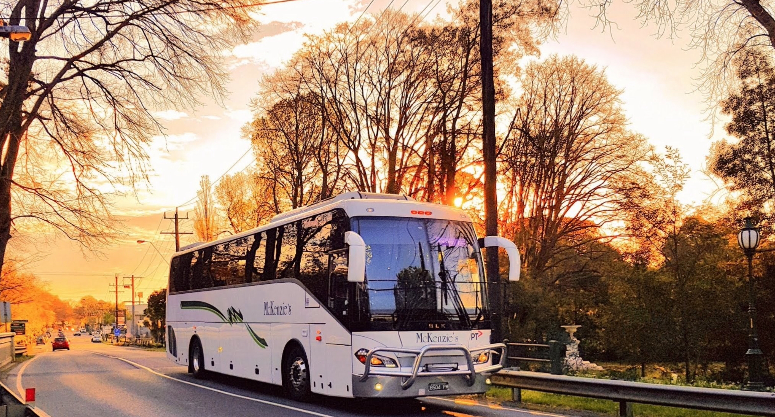 New McKenzies coach in Healesville heading to Eildon